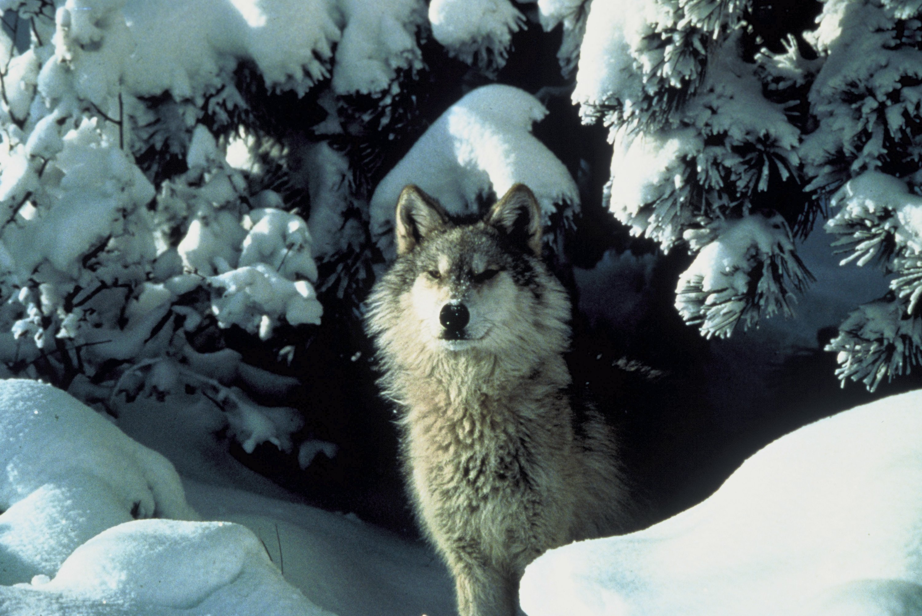 Gray wolf